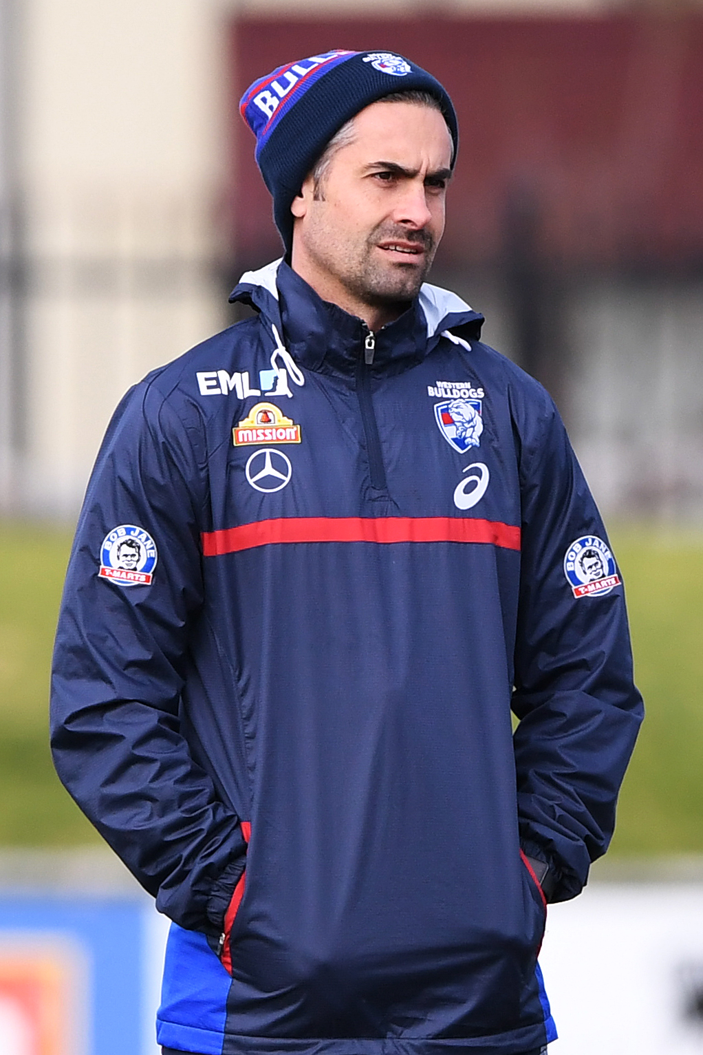 Daniel Giansiracusa of the Western Bulldogs during Western Bulldogs training on 7 August 2018 at Whitten Oval in Melbourne, Victoria.